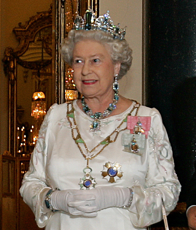 crop of source